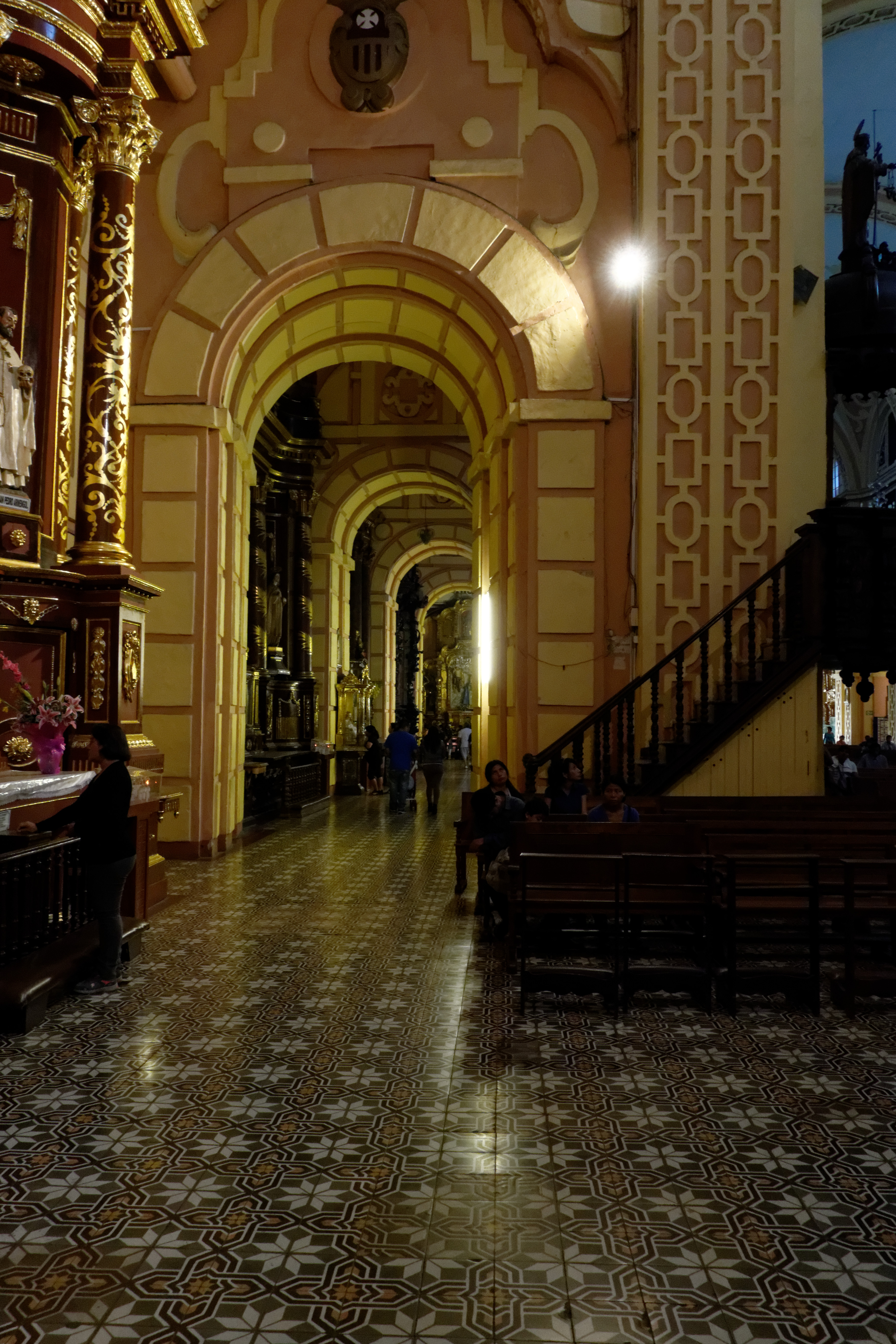 Basilica of Nuestra Señora de la Merced